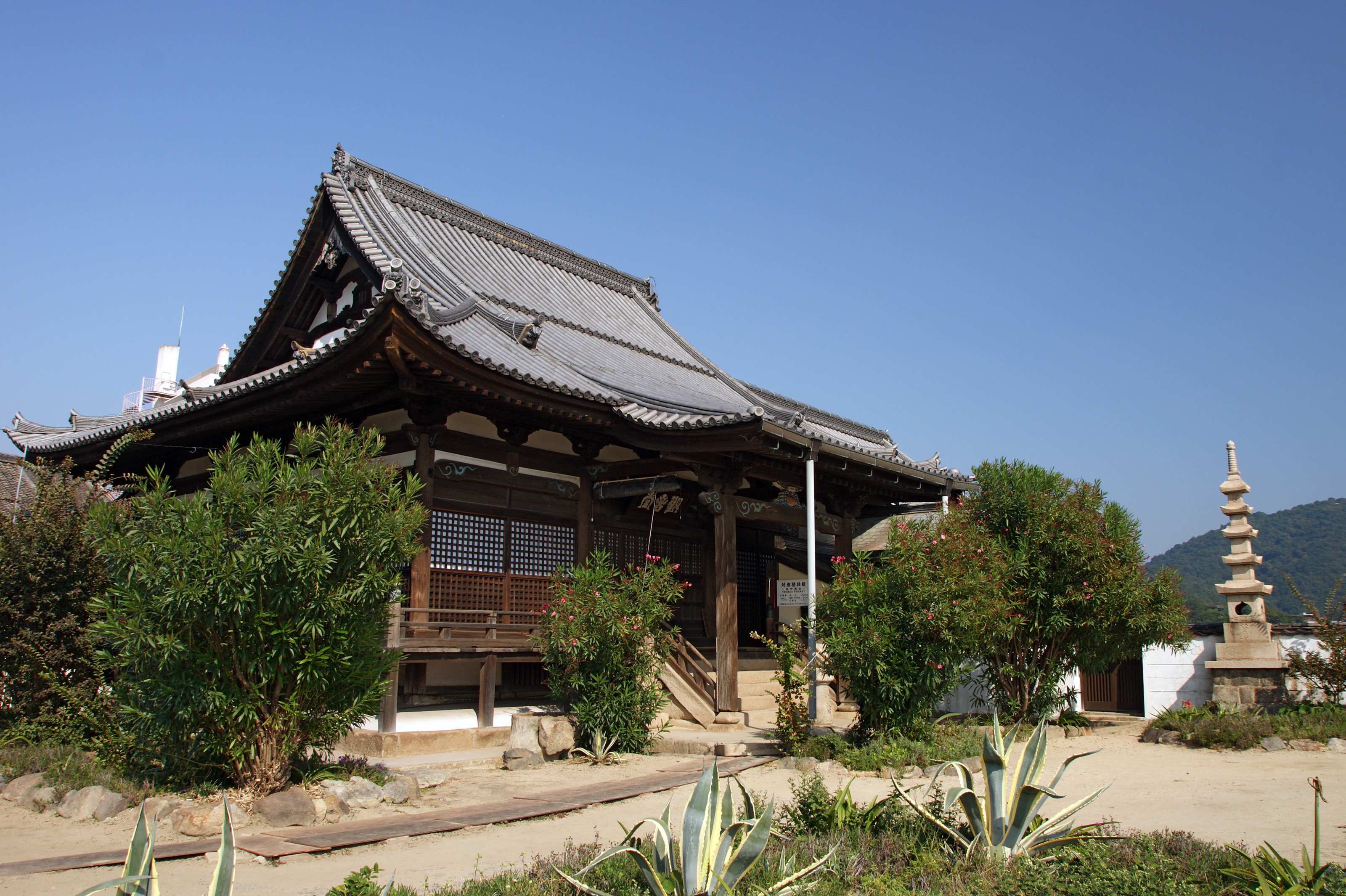 Fukuzenji, Fukuyama, Hiroshima Prefecture, Japan